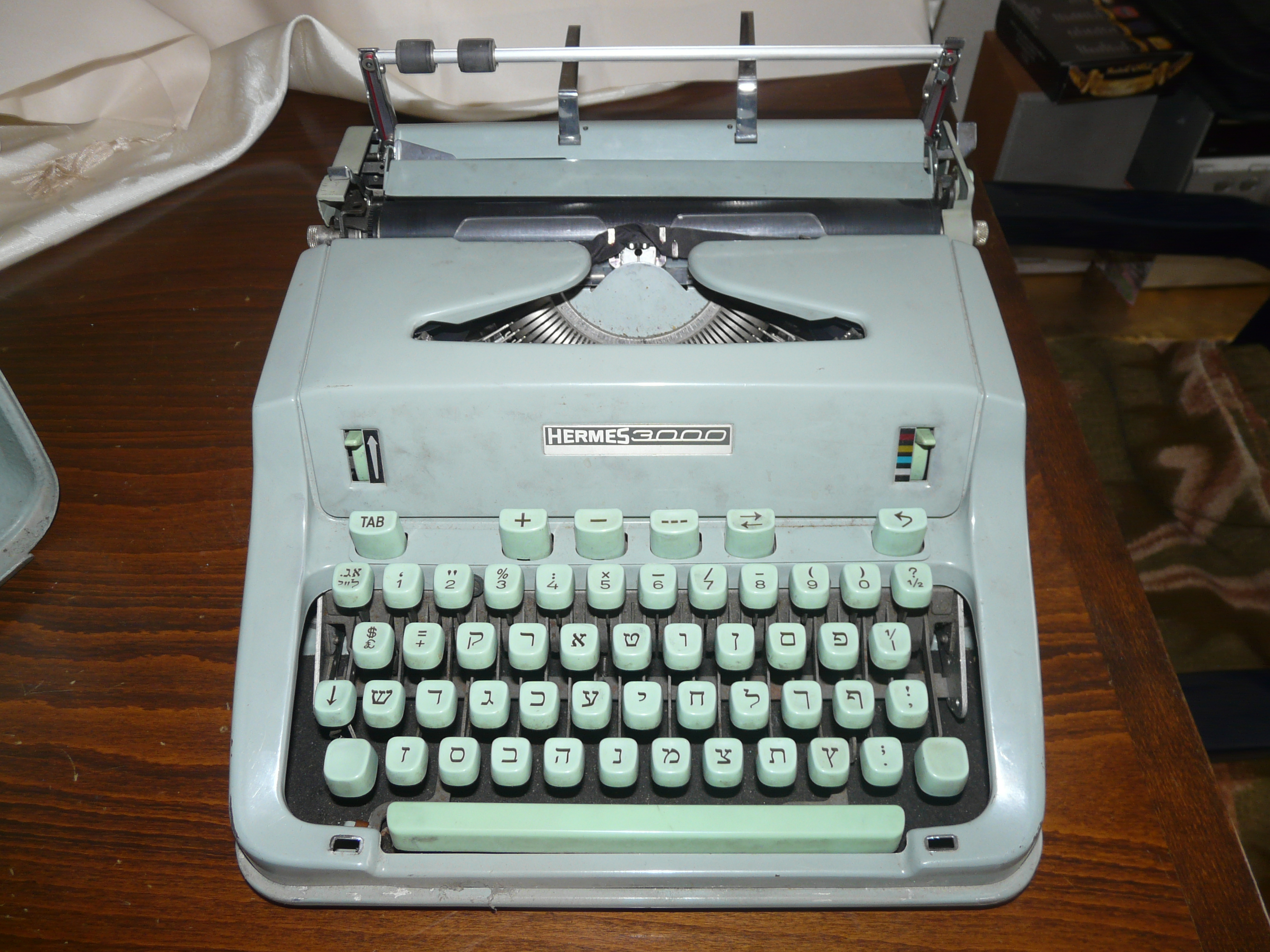 Typewriter hermes 3000